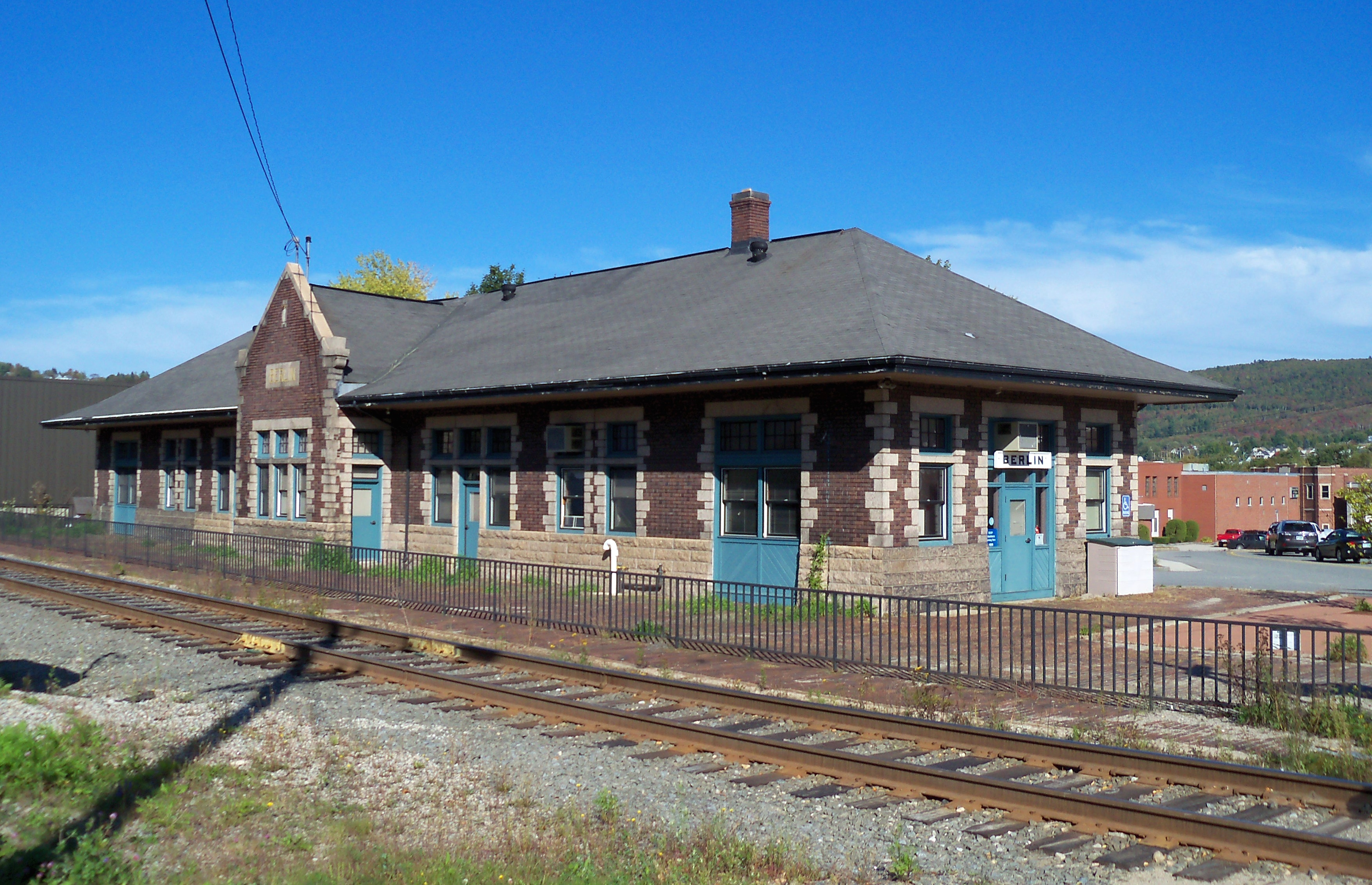 Rail depot in Berlin, New Hampshire, USA.